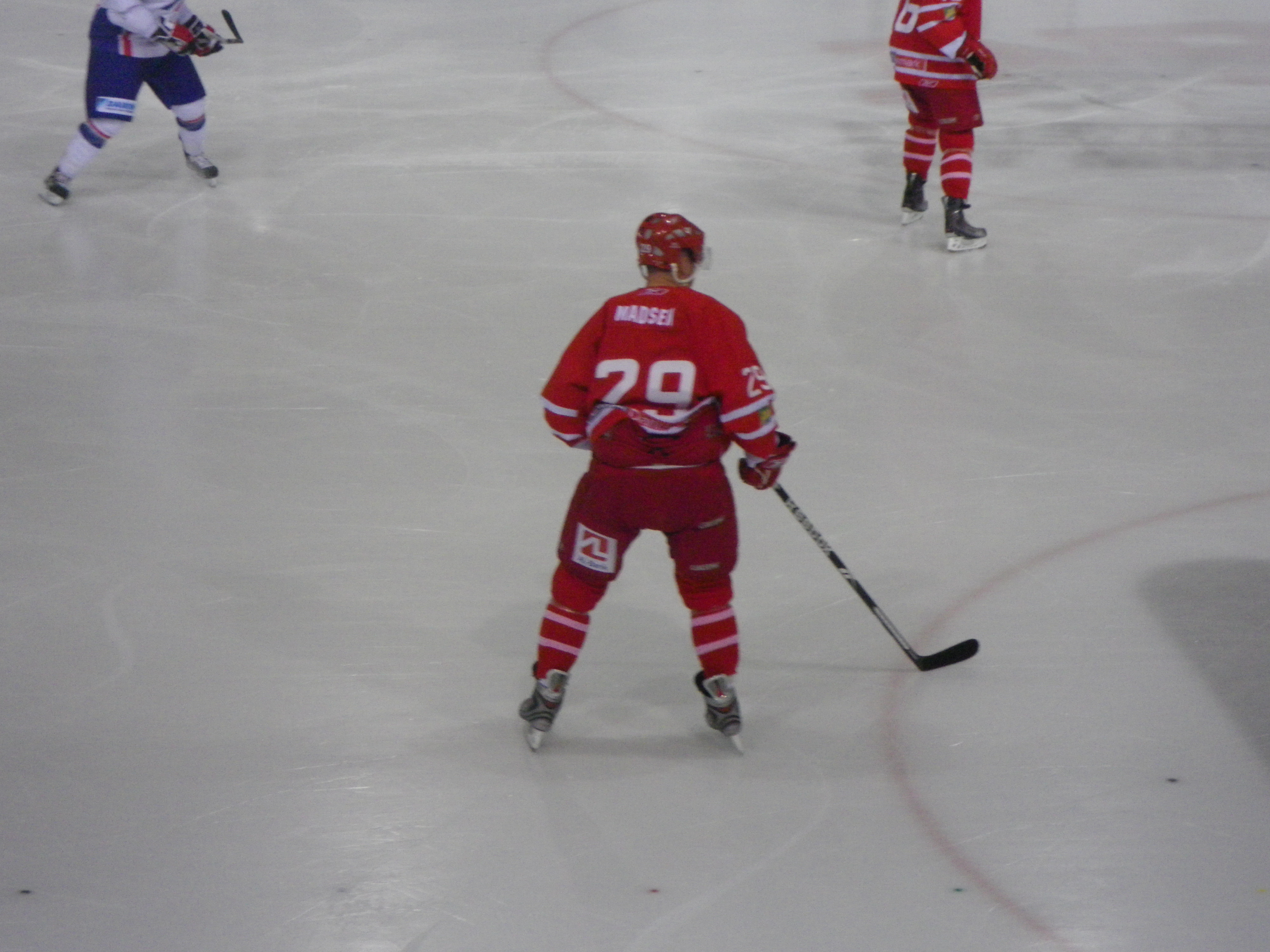 Morten Madsen, danish ice hockey player with team Denmark. Friendly against team France